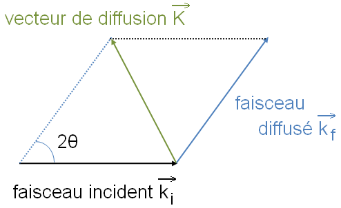 Diffusion vector, difference between the wave vectors of the diffused and incident beams.